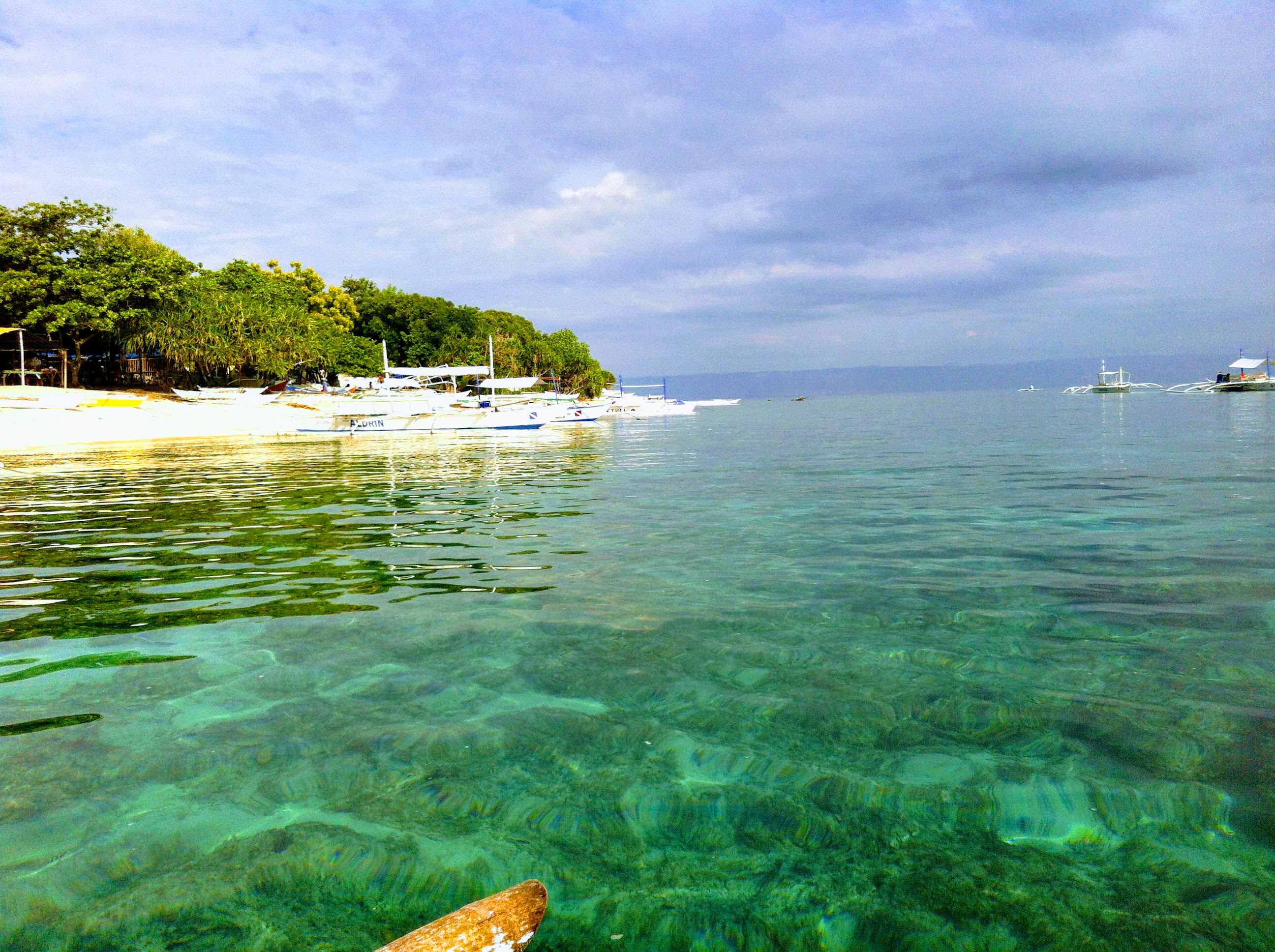 Balicasag Marine Sanctuary, Bohol, Philippines Alona Beach Rd, Panglao, Bohol, Philippines